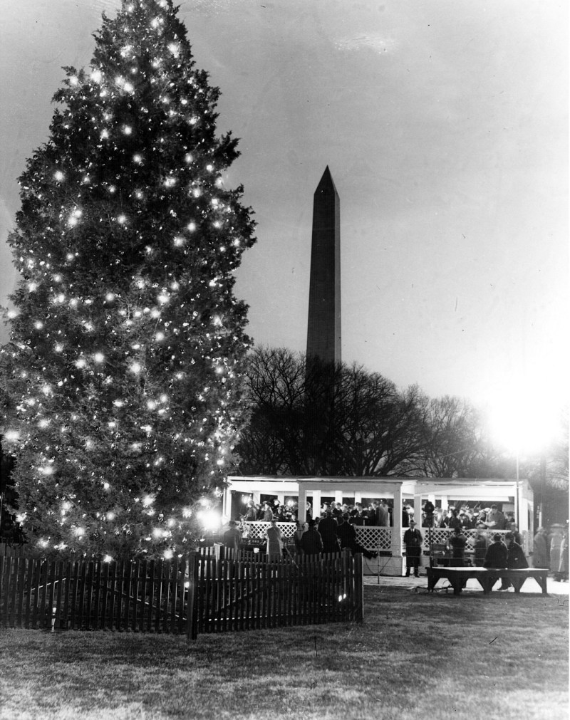 The 1940 National Community Christmas Tree, lit by President Franklin D. Roosevelt, glows in front of the Washington Monument.